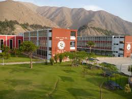 Campus College